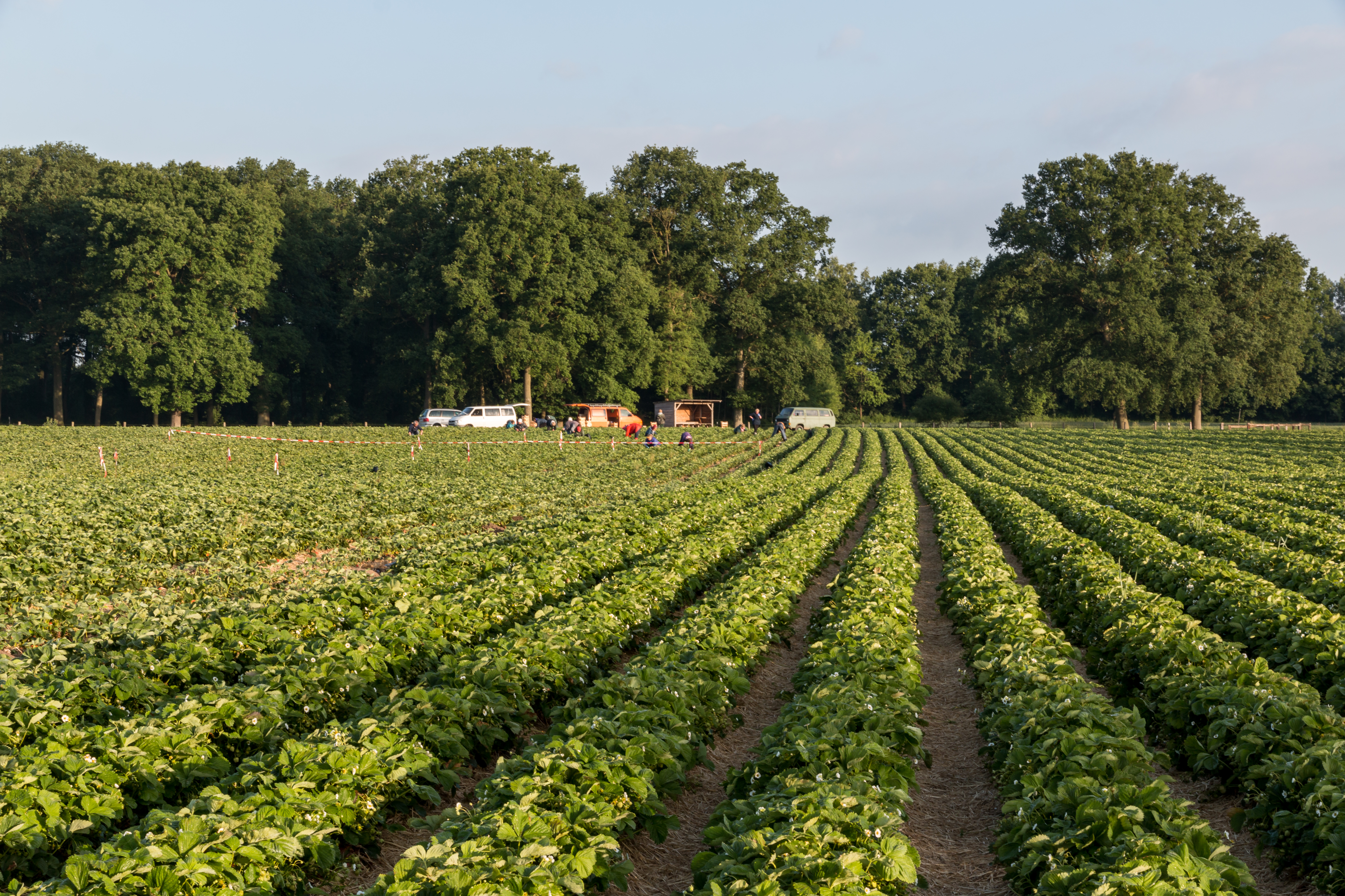 Strawberry Field in the Dernekamp hamlet, Kirchspiel, Dülmen, North Rhine-Westphalia, Germany